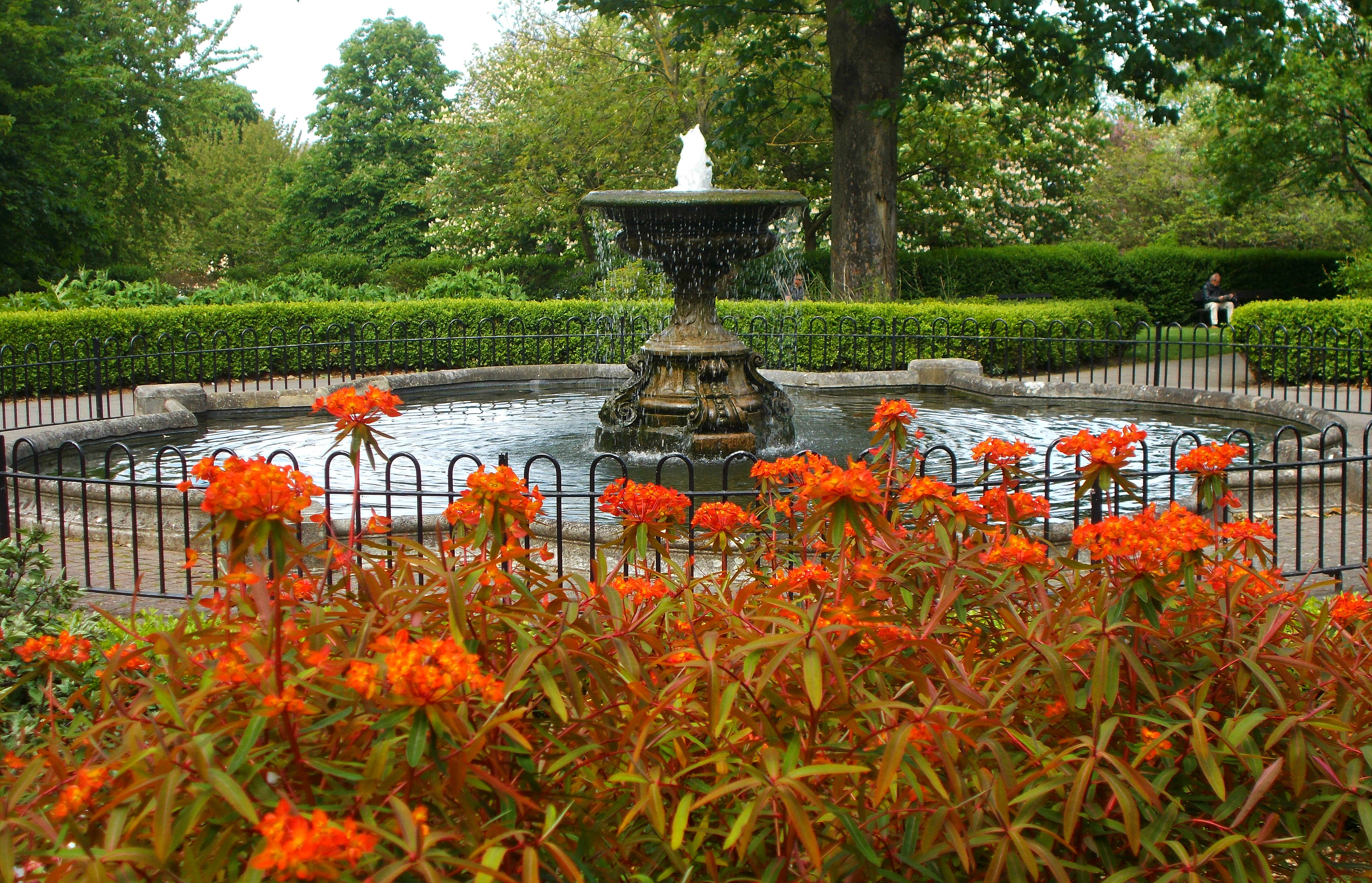 Sutton is 10 miles from central London.